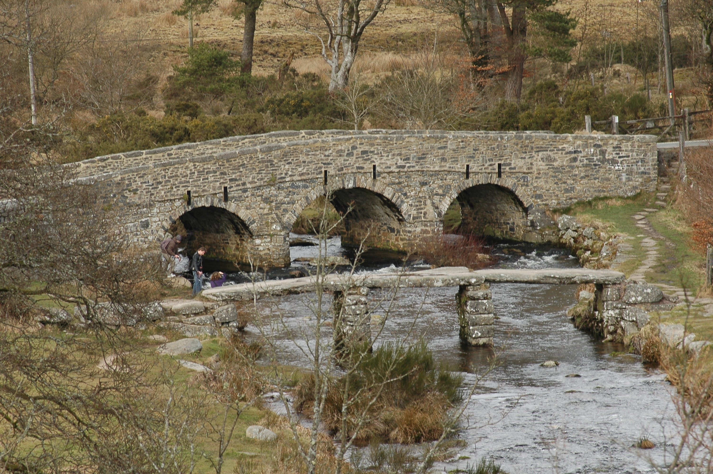 Clapper Bridge.